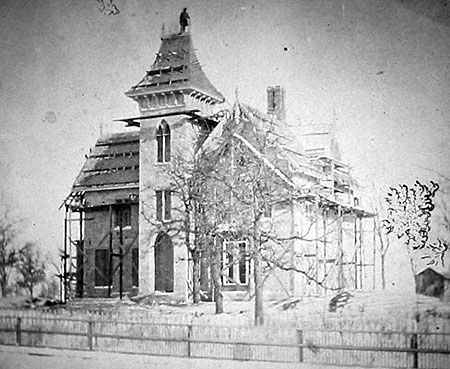 The William G. LeDuc home under construction in 1863